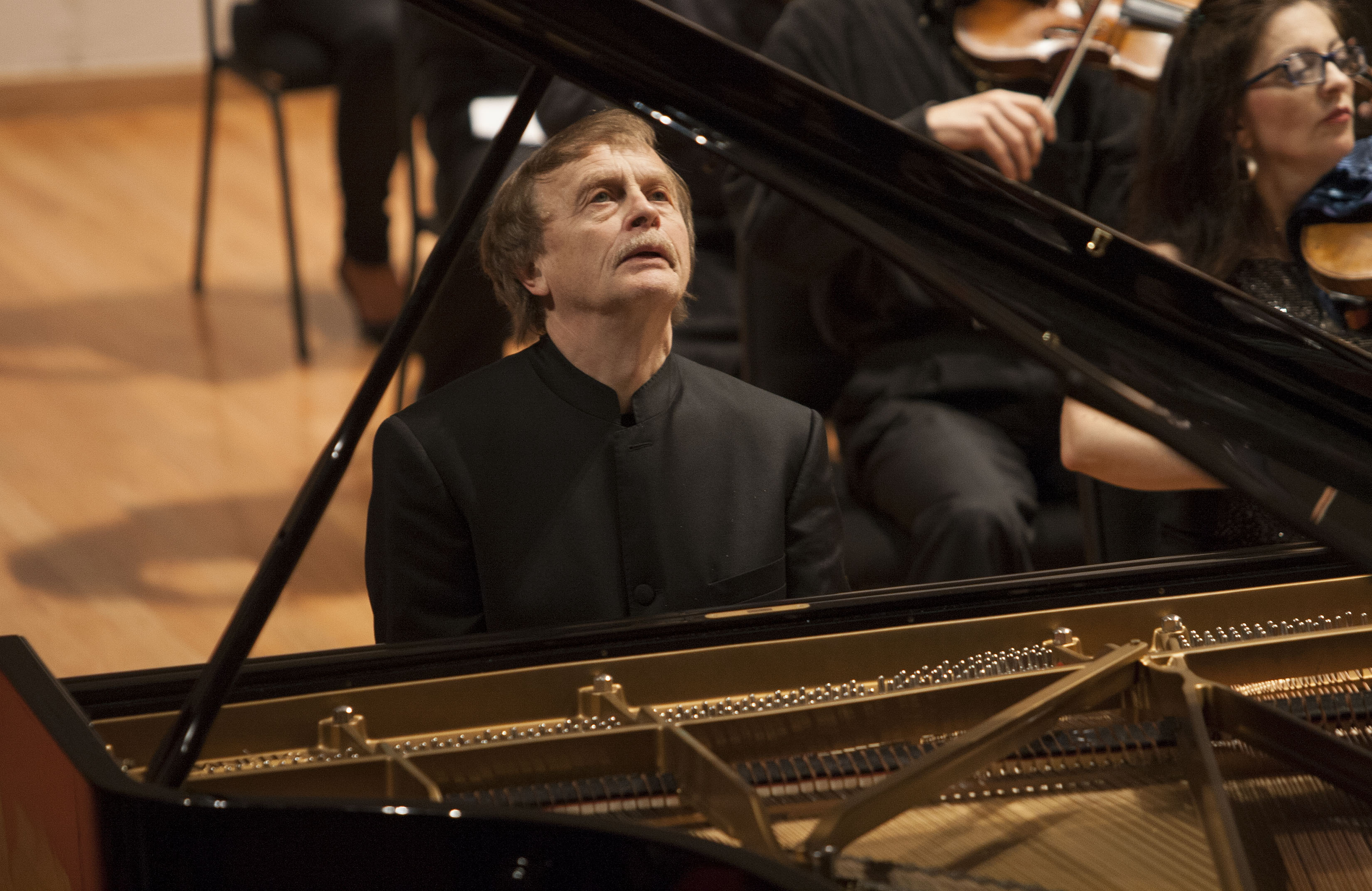 Sunday, June 07, 2015. Mexico City's Philharmonic Orchestra played music by Evard Grieg and Sigurd Jorsalfarm under host conductor Bjarte Engeset and having concert pianist Hakon Austbo. Photo by Abril Cabrera A. / Cultural Secretariat Mexico City.